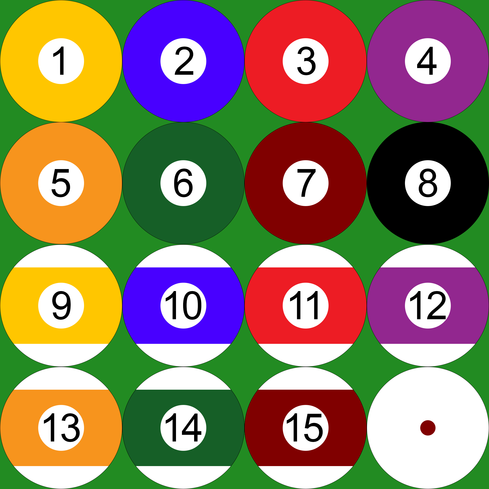 Pool balls